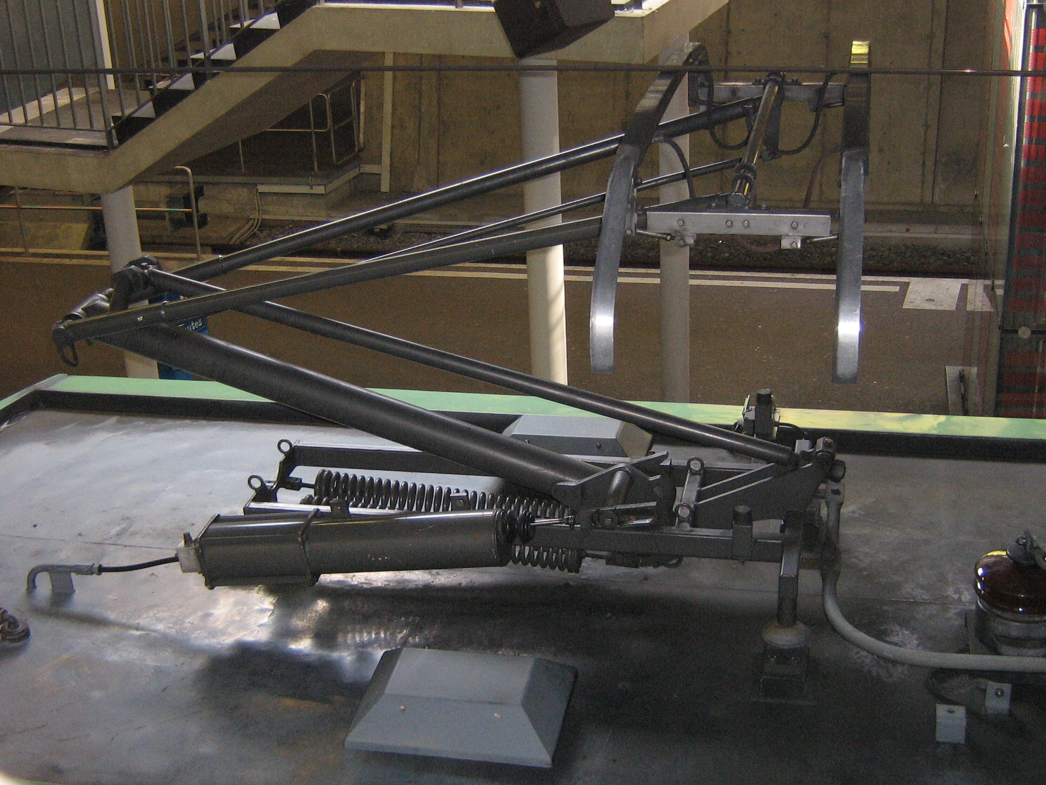 Pantograph in Z of the Be 4/8 34 "Prilly", Lausanne-Flon.